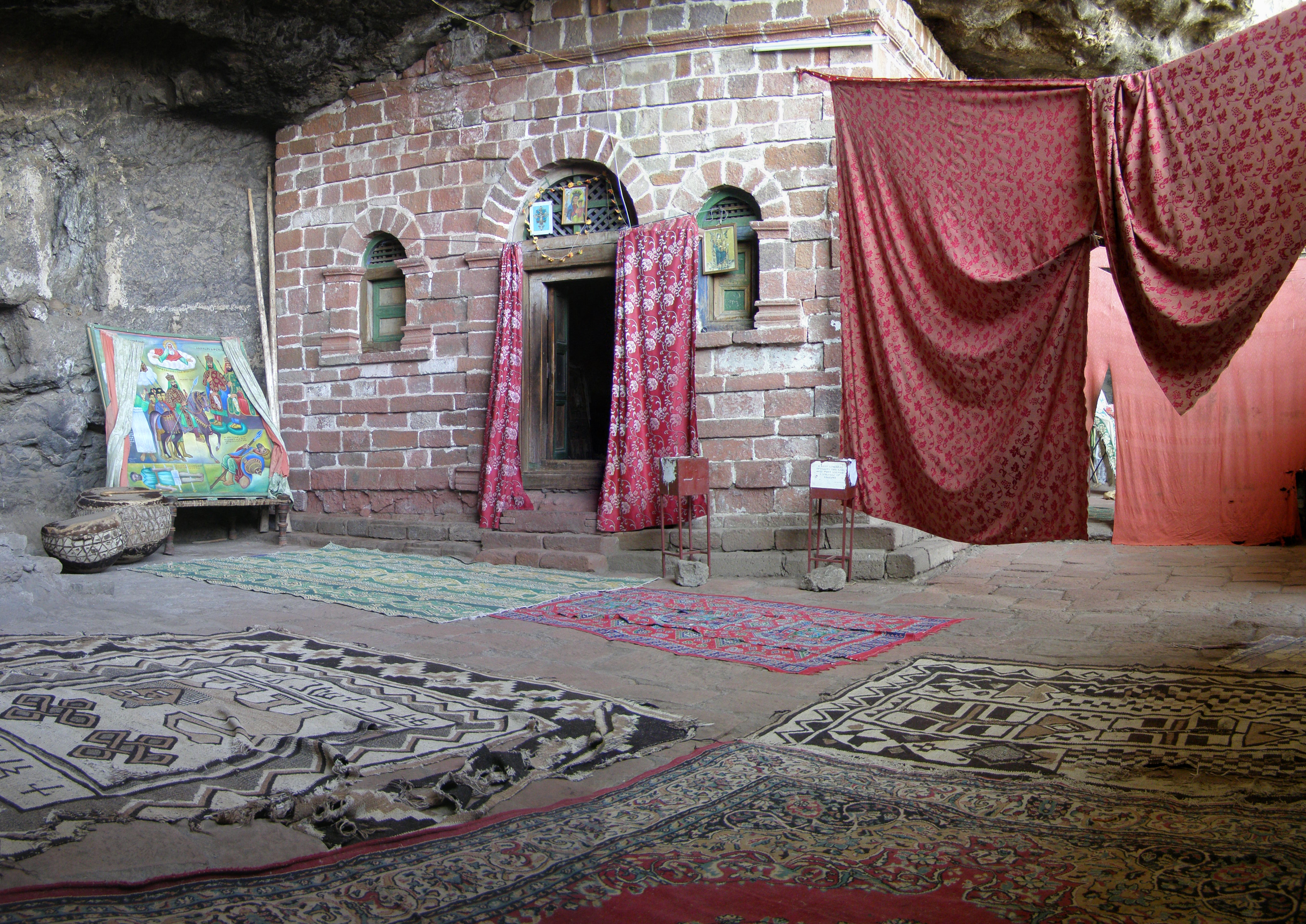 Na'akuto La'ab is a small church built under a natural cave found about 7 km outside of Lalibela